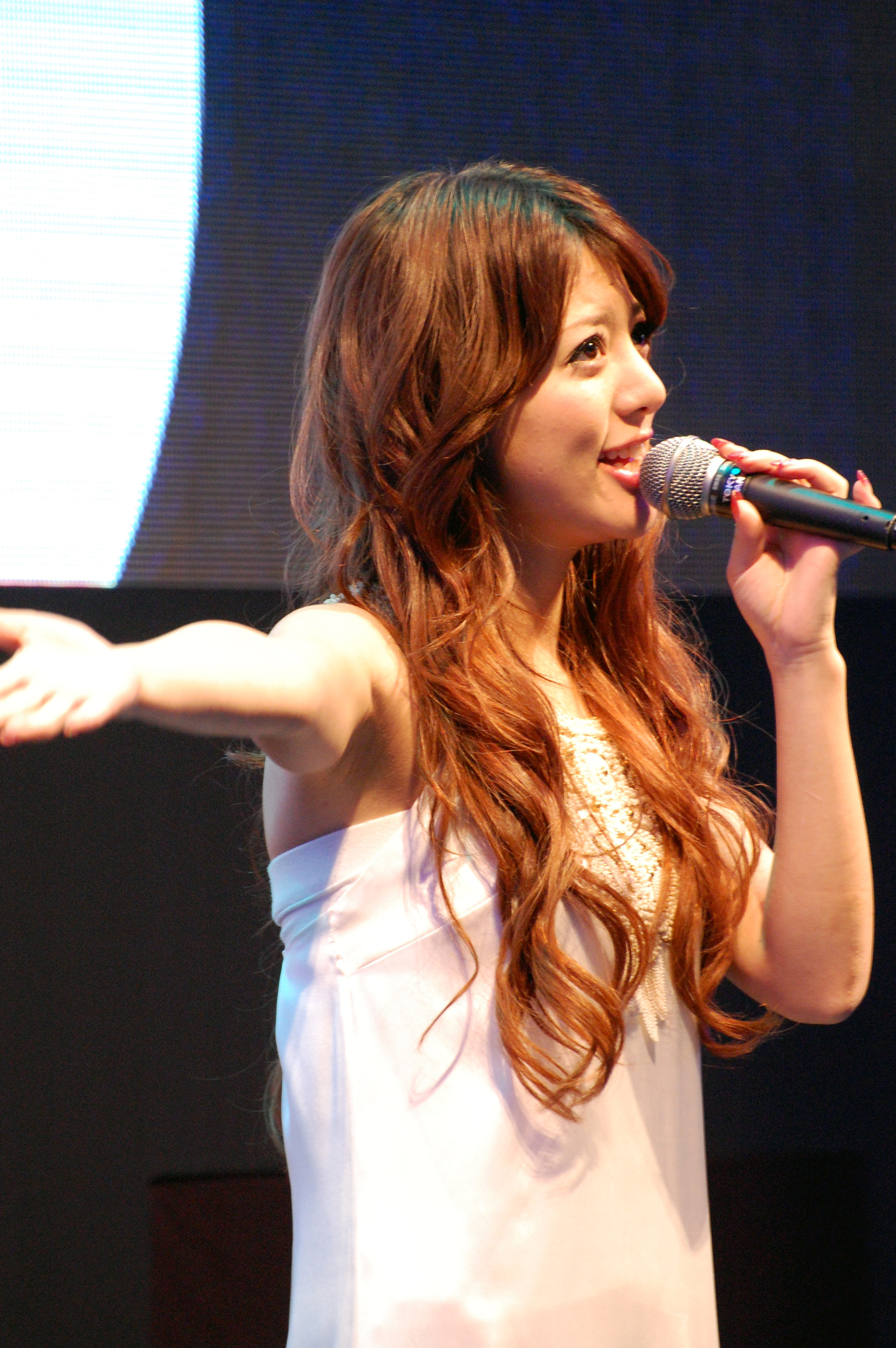 Alan Dawa Dolma at Tokyo Game Show 2008